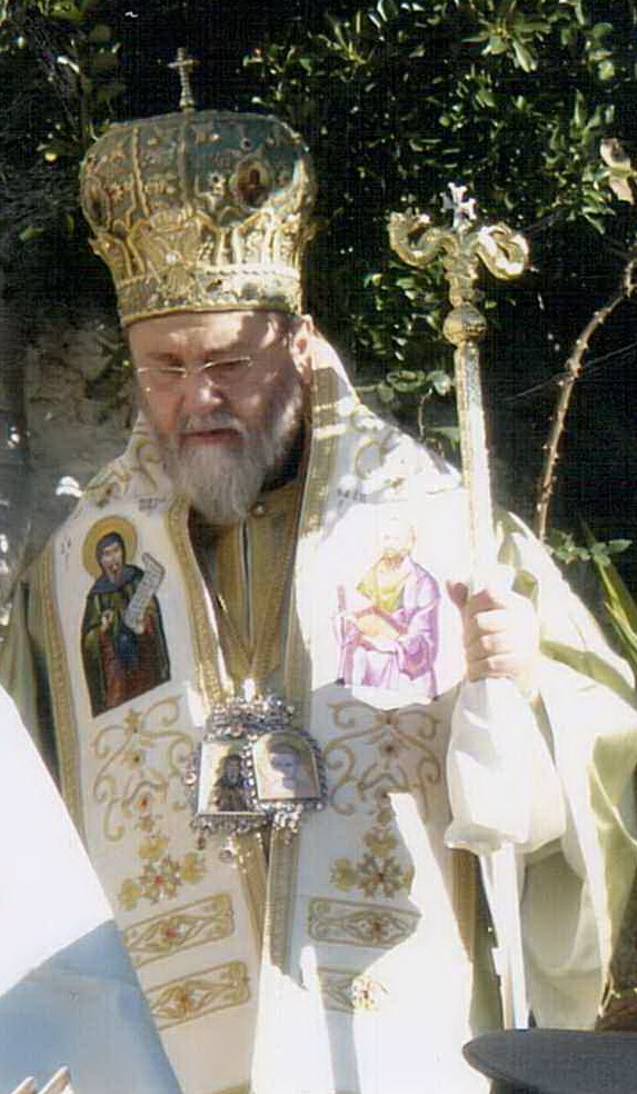 His Eminence Metropolitan bishop of Corinth Mr Dionysius, at the celebration of Saint Patapios, at the saints’ monastery (8 December 2011)